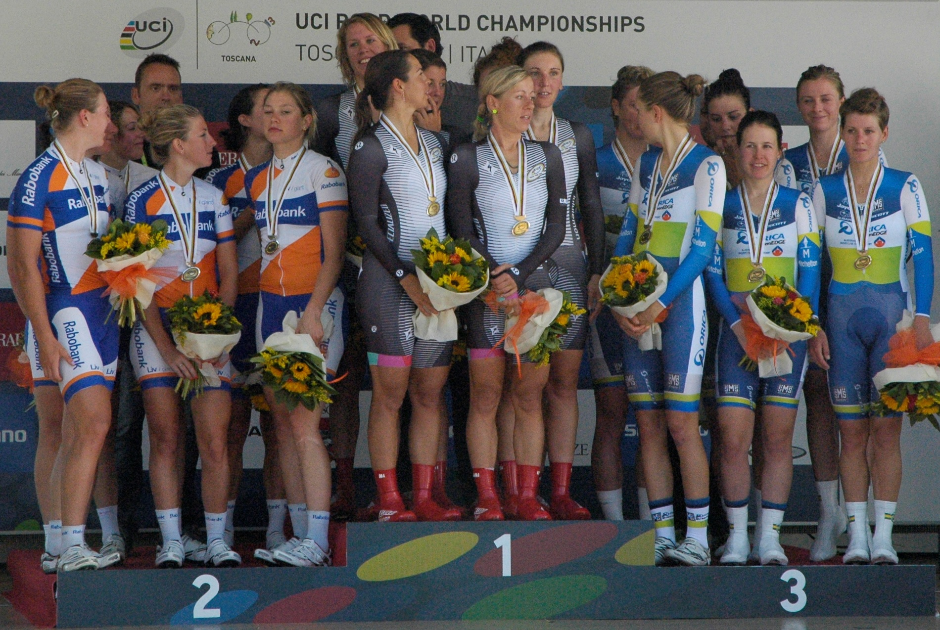 2013 UCI Road World Championships – Women's team time trial podium